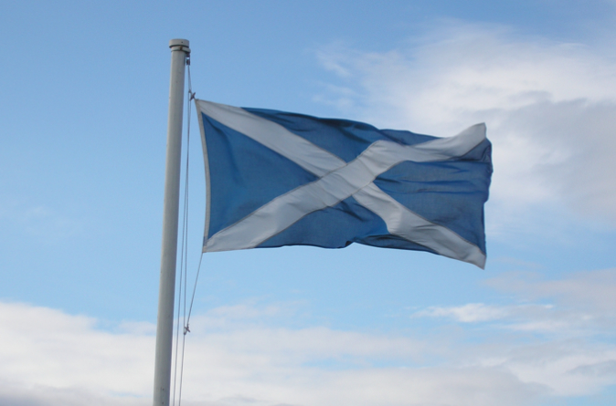 Saltire flag in the wind